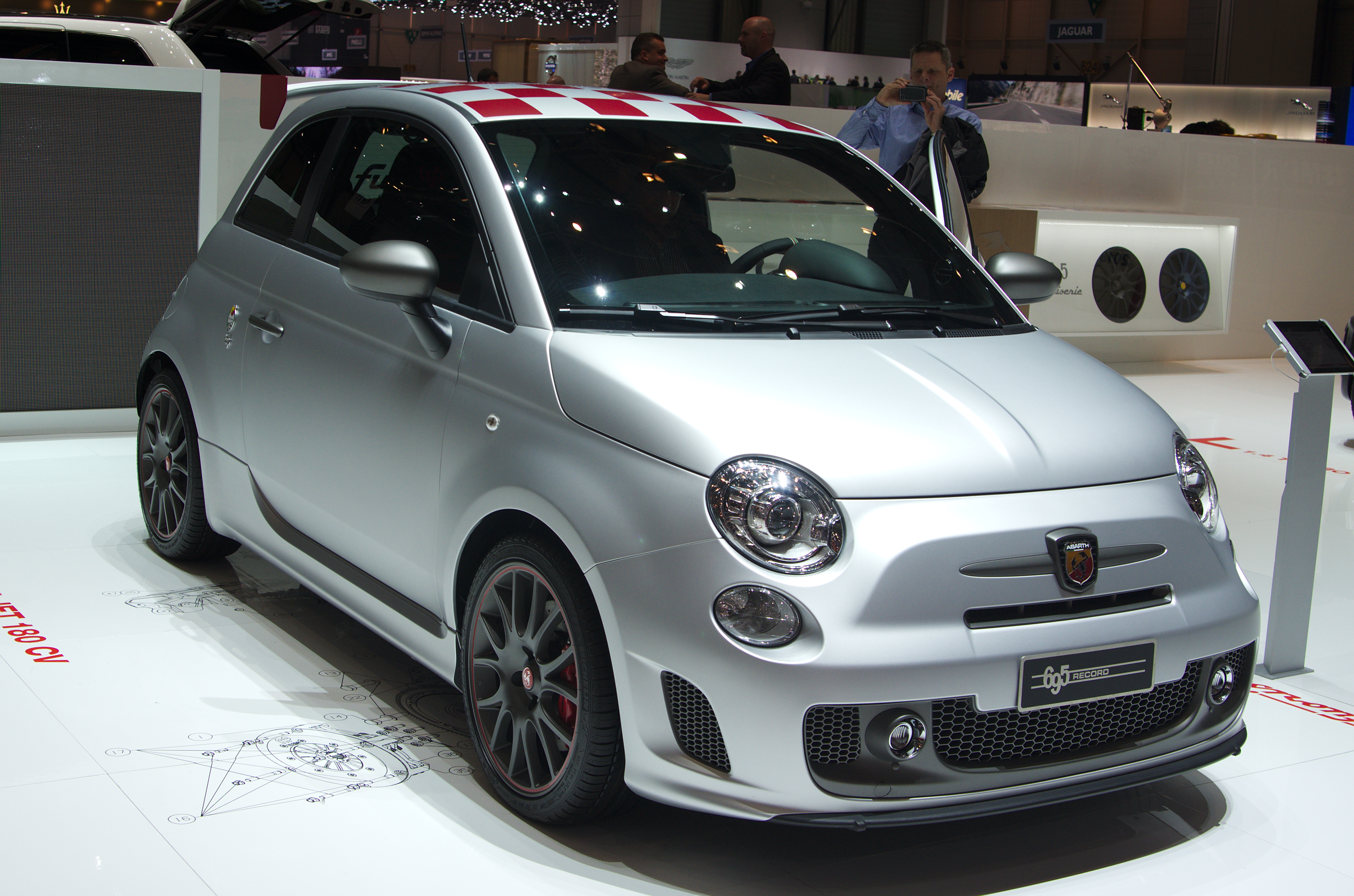 Geneva MotorShow 2013 - Abarth 695 Record